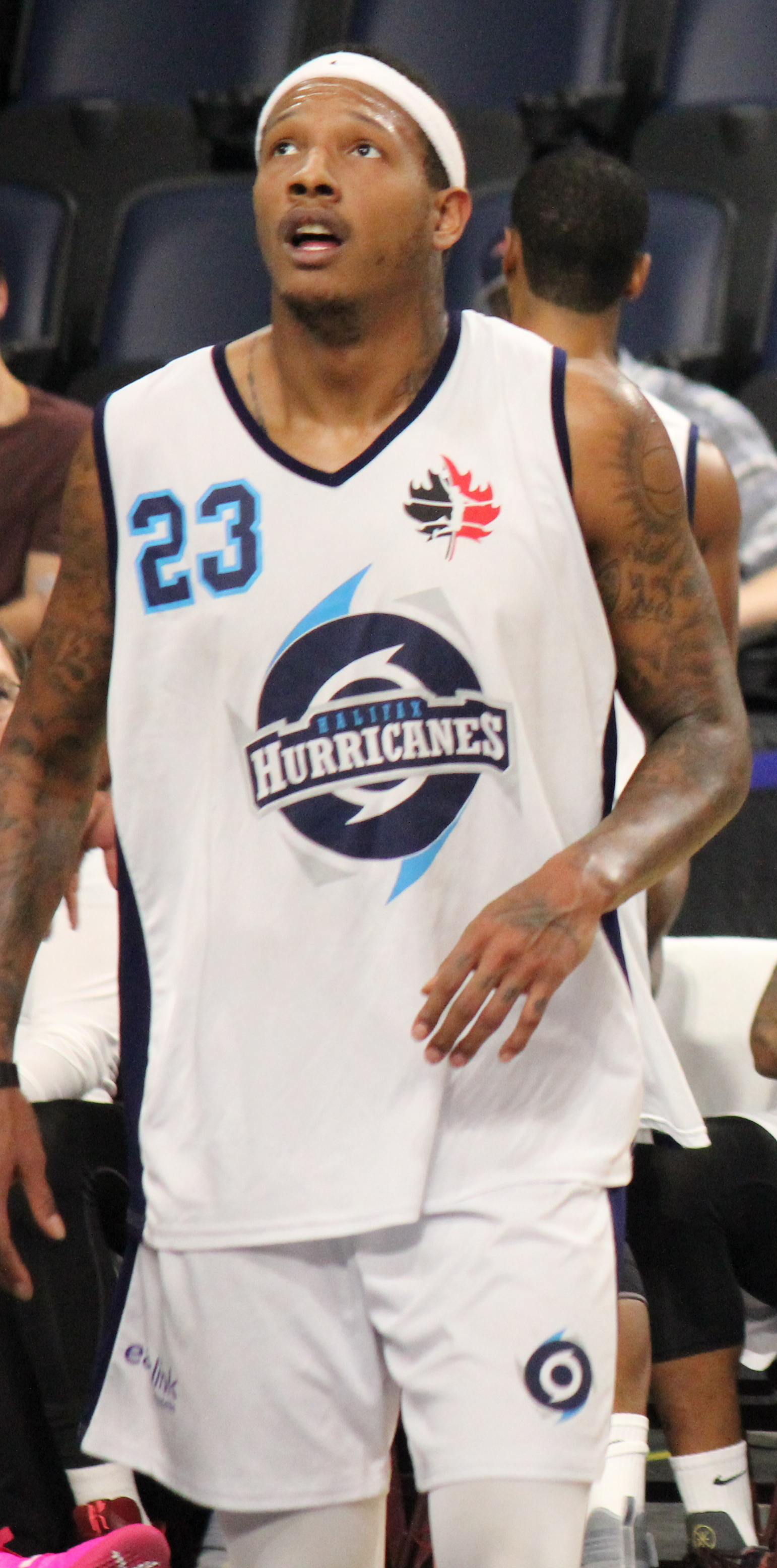 Halifax Hurricanes vs Saint John Riptide at Halifax,Jan 26/2017